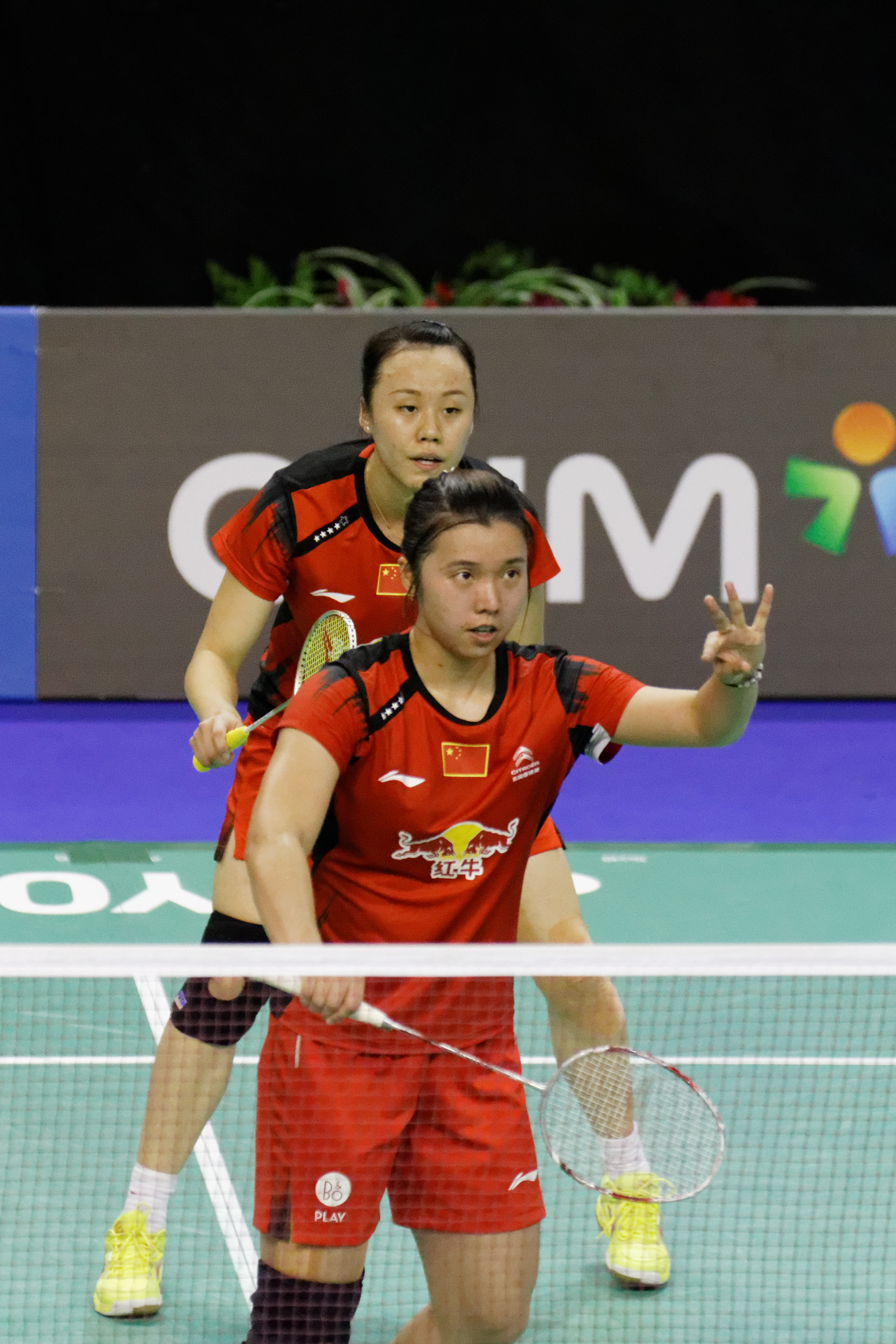 2013 French open. Women's doubles quarterfinal. Tian Qing and Zhao Yunlei vs Misaki Matsutomo and Ayaka Takahashi.